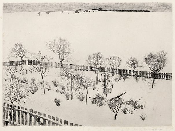 Suburban Garden in the Snow